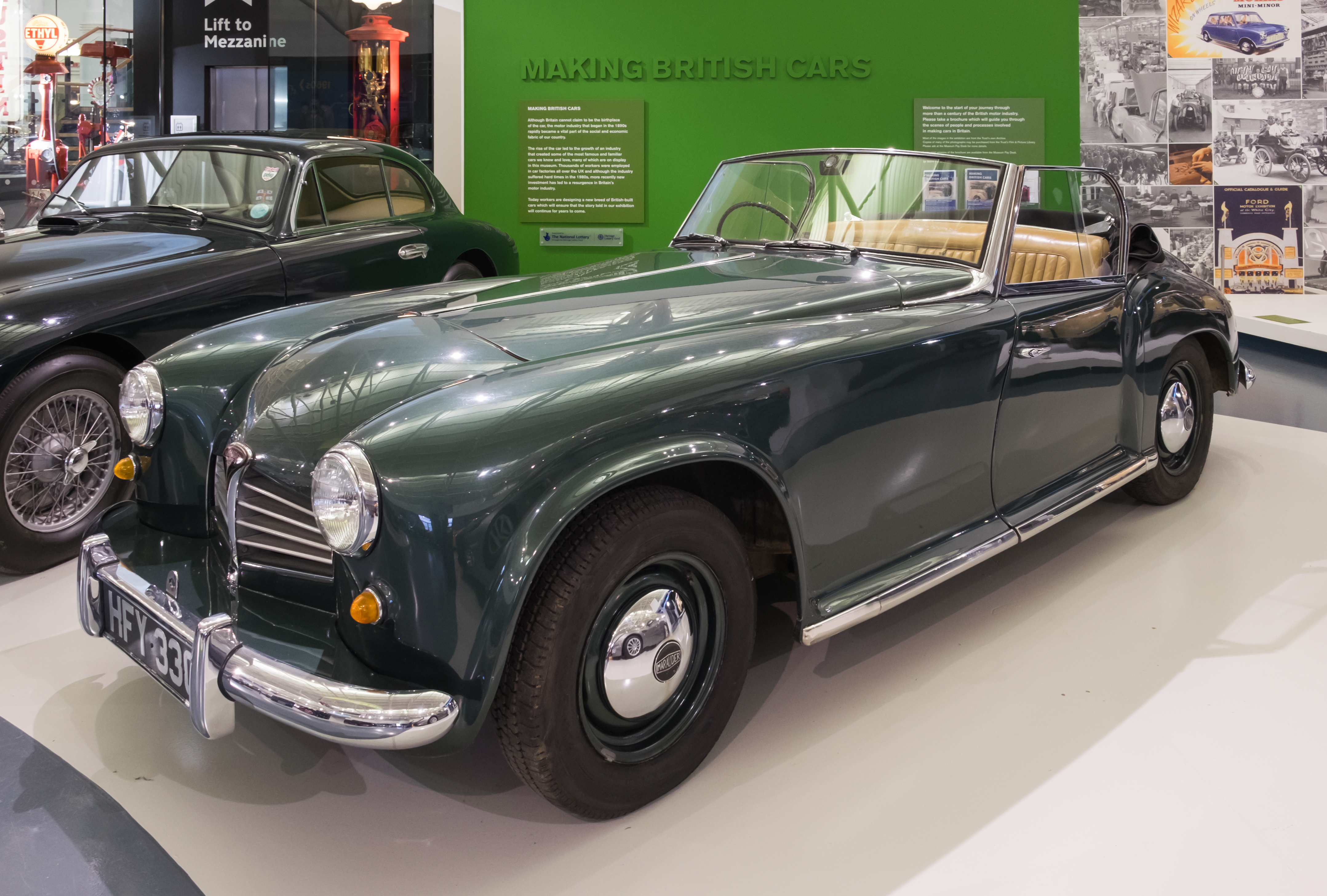 A 1951 Rover Marauder tourer. This car, with registration mark HFY 330, is now kept at the British Motor Museum, Gaydon, UK.